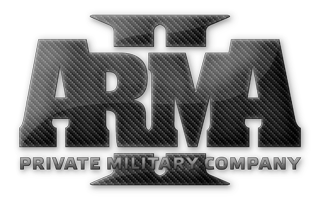 ArmA II:OA (2010) video game logo.